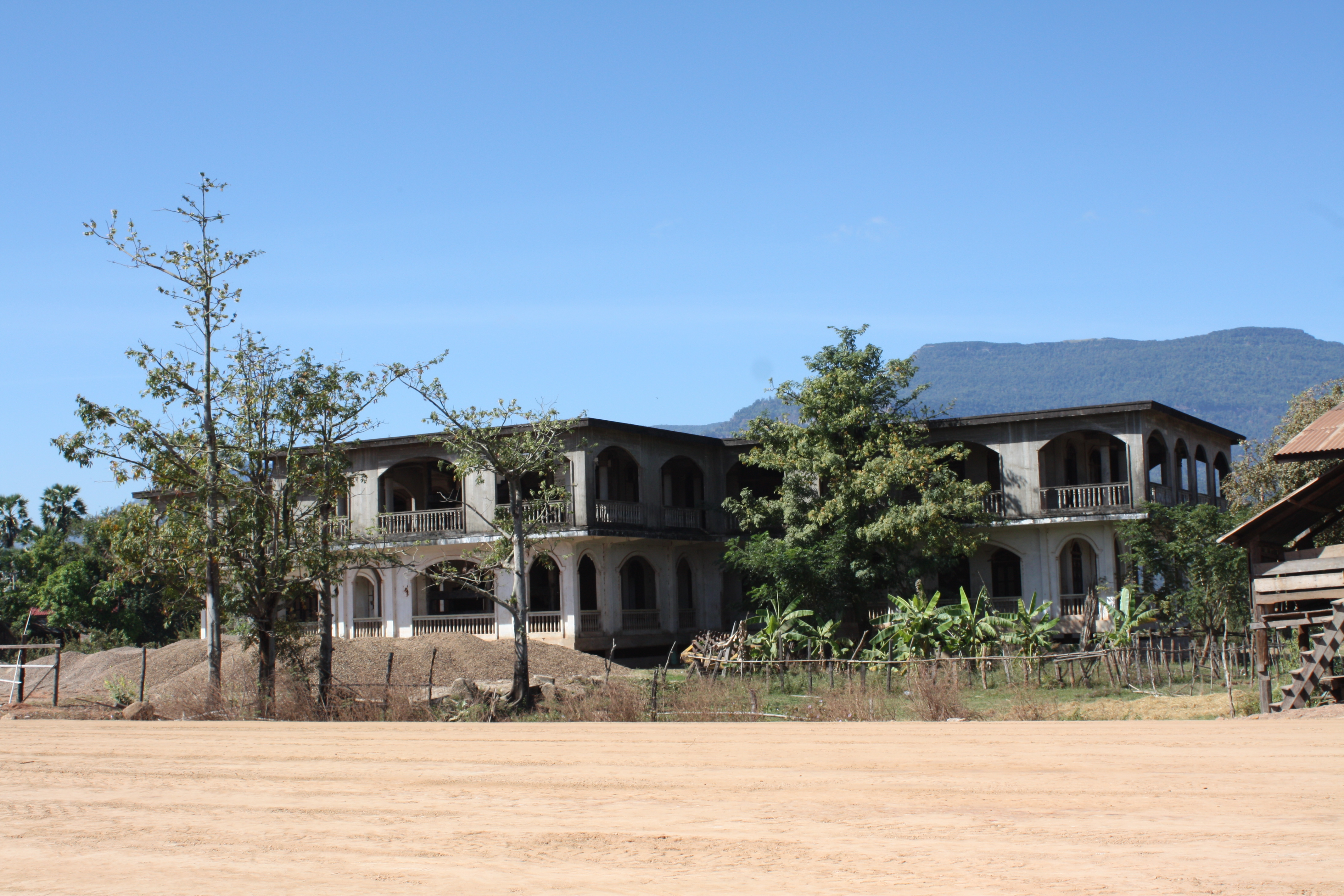 Unfinished Royal Palace, Champasak, Laos.